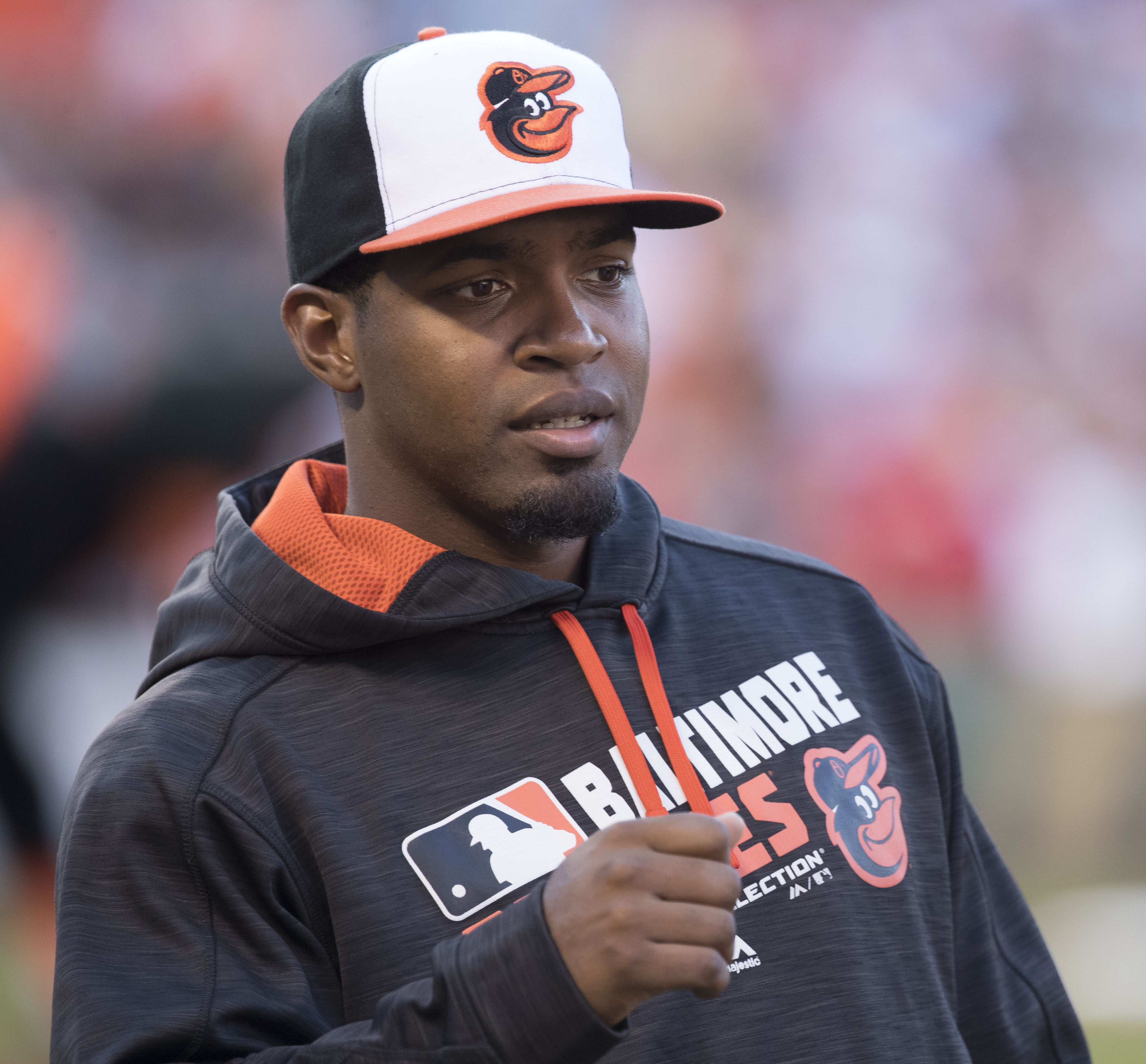 Nationals at Orioles 8/22/16